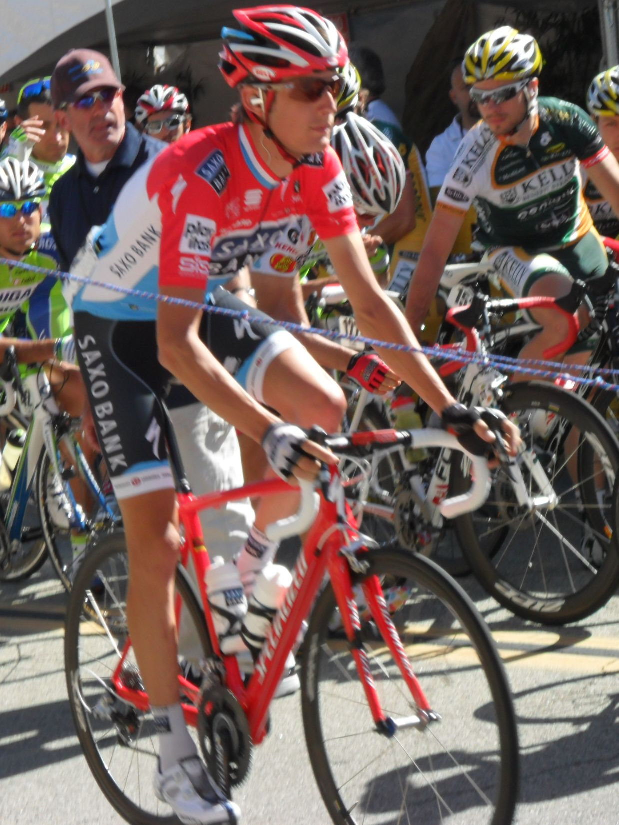 Andy Schleck at the 2010 Tour of California